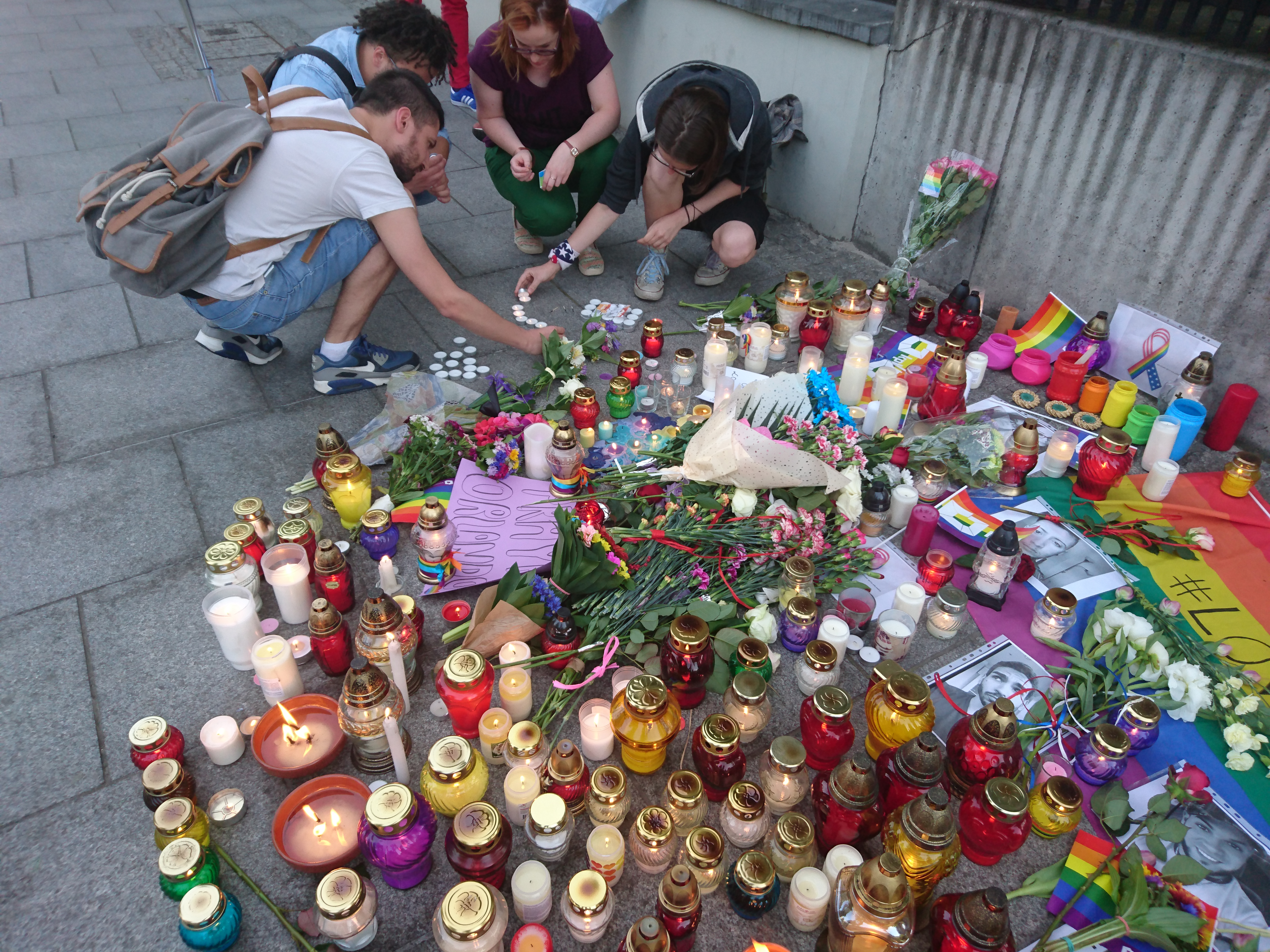 Solidarnie z ofiarami nienawiści. Manifestacja pod ambasadą Stanów Zjednoczonych w Warszawie po zamachu na klub gejowski w Orlando